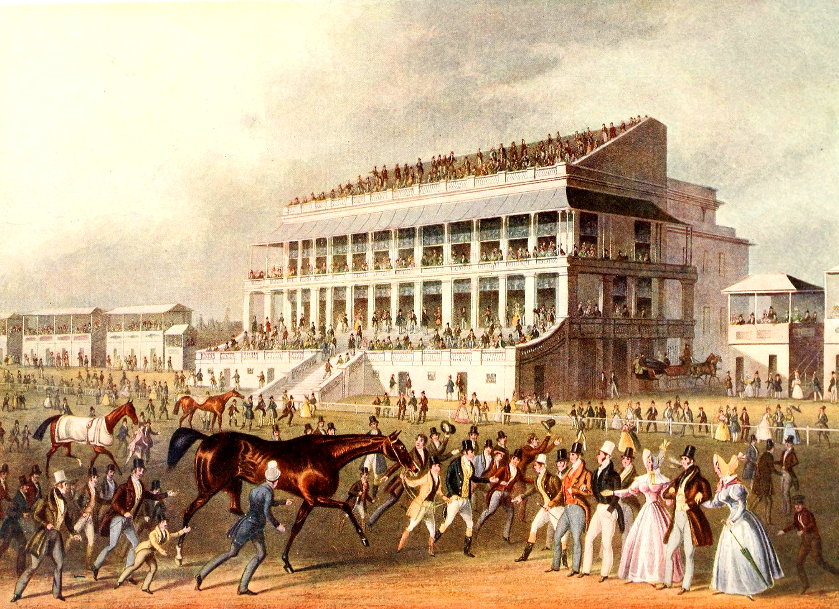 Epsom Grand Stand - The Winner Of The Derby Race